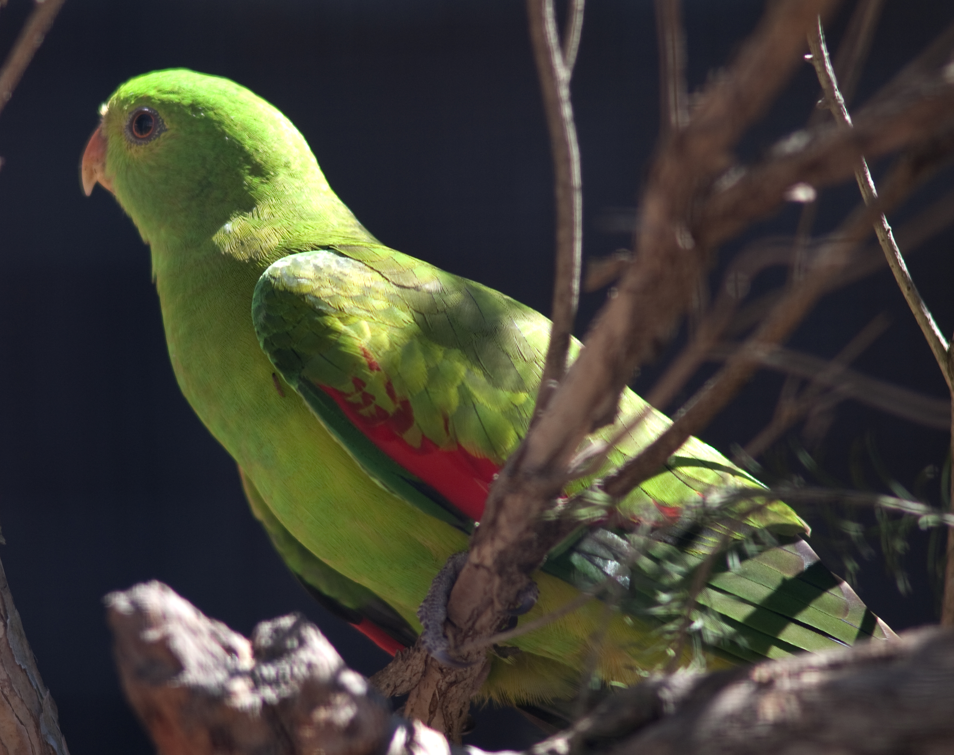 Female Red-winged Parrot in captivity at Adelaide Zoo in South Australia. The species is native to Australia and Papua New Guinea.